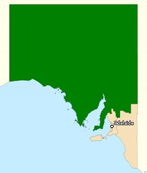 This image incorporates data that is: © Commonwealth of Australia (Australian Electoral Commission) 2009 Division of Grey 2010